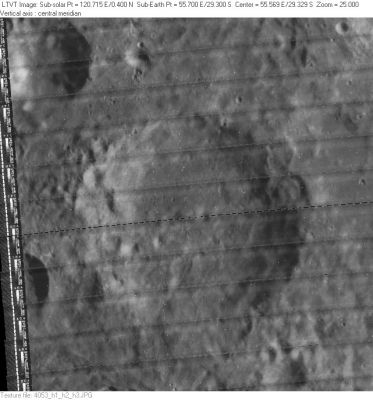 LO-IV-053H Snellius lunar crater. Snellius A is the 37-km crater in the upper left, To its immediate right is 7-km Snellius X. 29-km Snellius B is partially visible along the lower left margin.